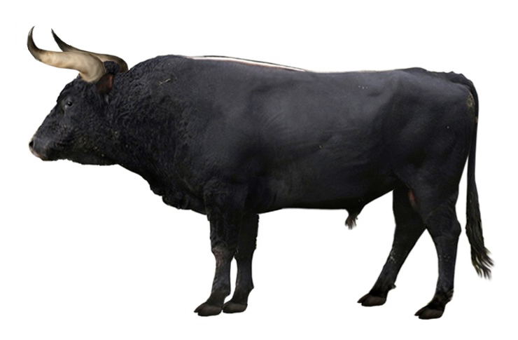 Life restoration of an Aurochs bull found in Braunschweig, done by using the skeleton as direct reference for the proportions and horns; body shape and colour is based on what we know of the aurochs and primitive cattle breeds.